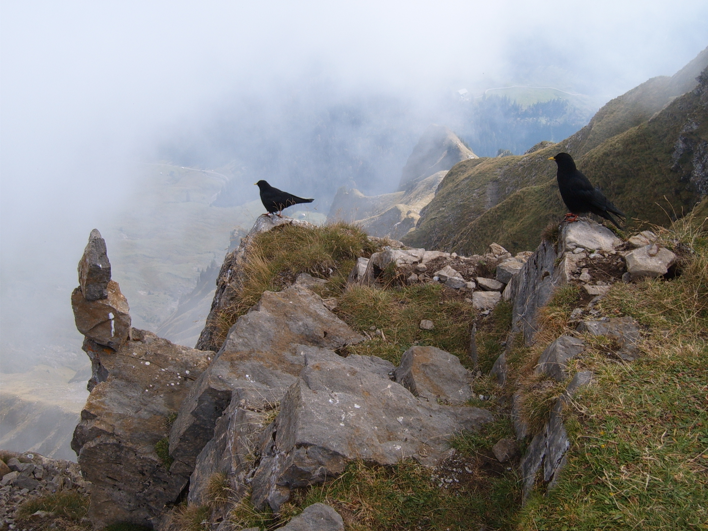 Alpine Choughs (Pyrrhocorax graculus) on misty Druesberg (2282 m, Canton of Schwyz, Switzerland)